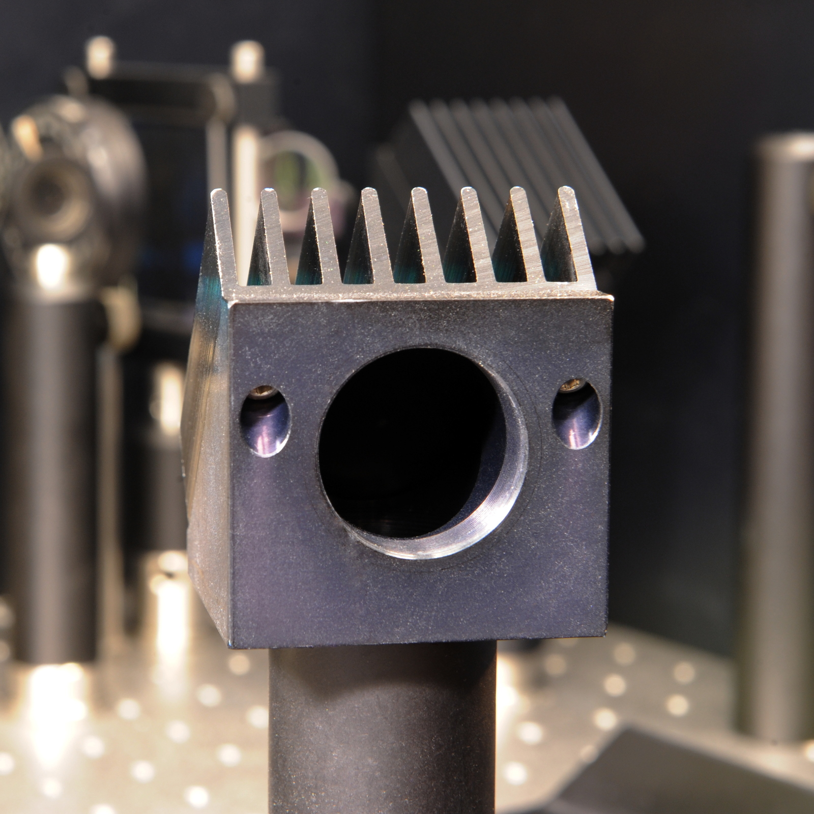 Photograph of an optical beam dump for the controlled termination of an intense laser beam in optics experiments.